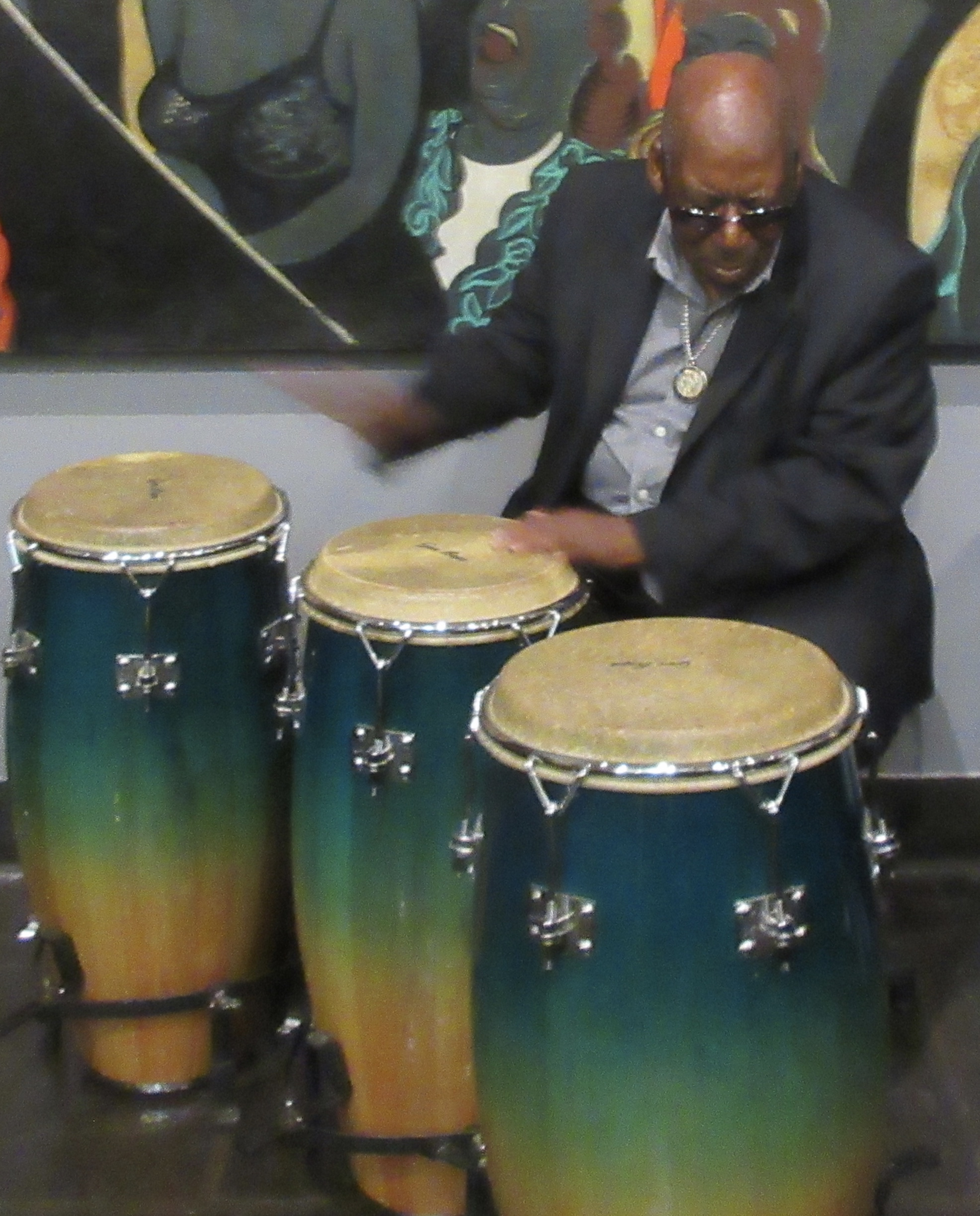 Percussionist Uganda Roberts plays for opening of exhibit on Professor Longhair at the New Orleans Jazz Museum.